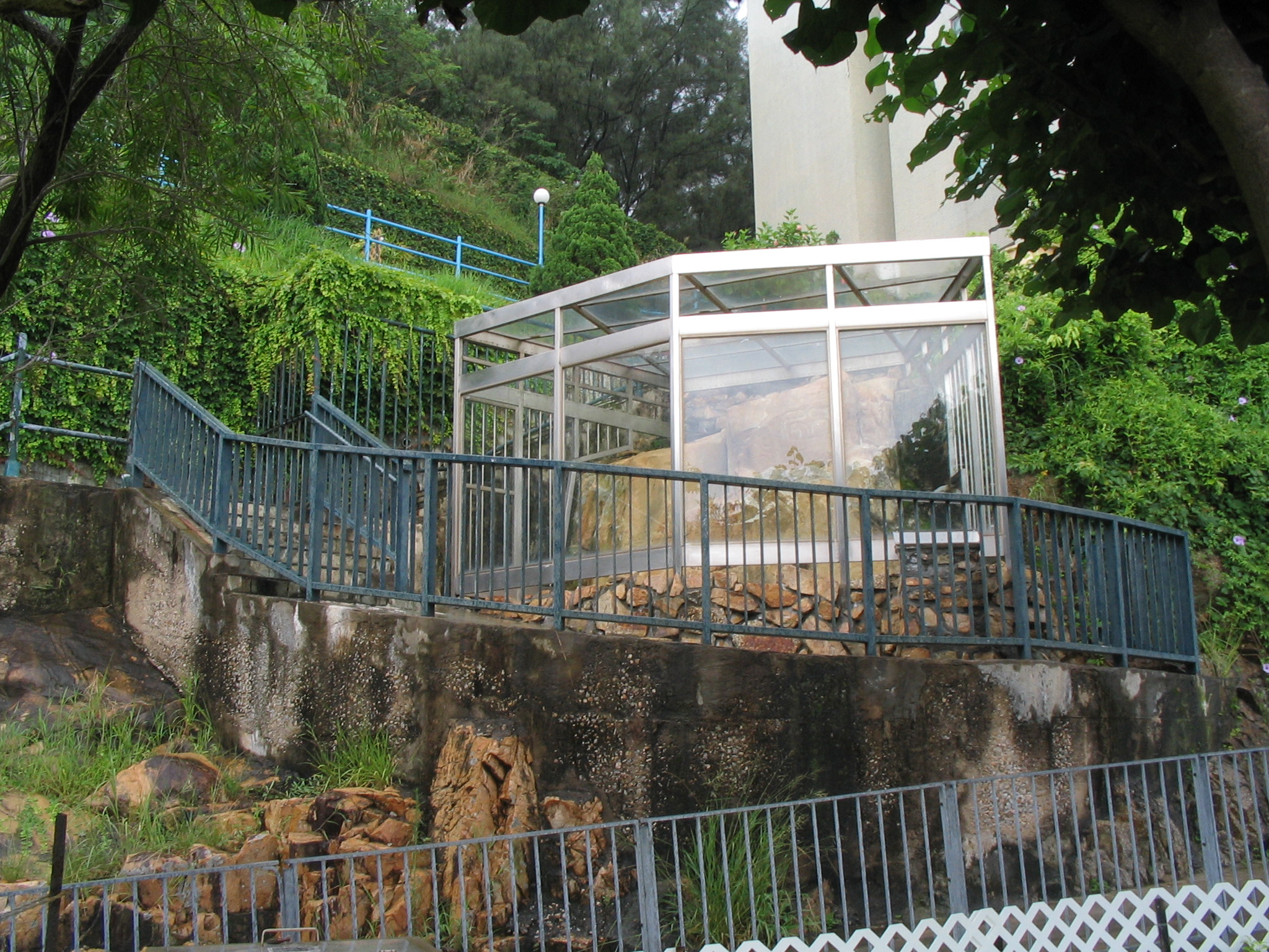 Photo of Cheung Chau Rock Carving